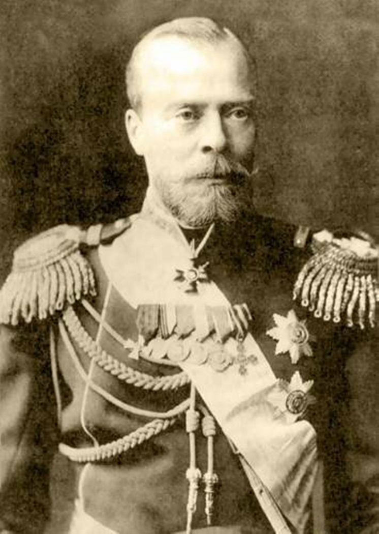 Duke Alexander Petrovich of Oldenburg